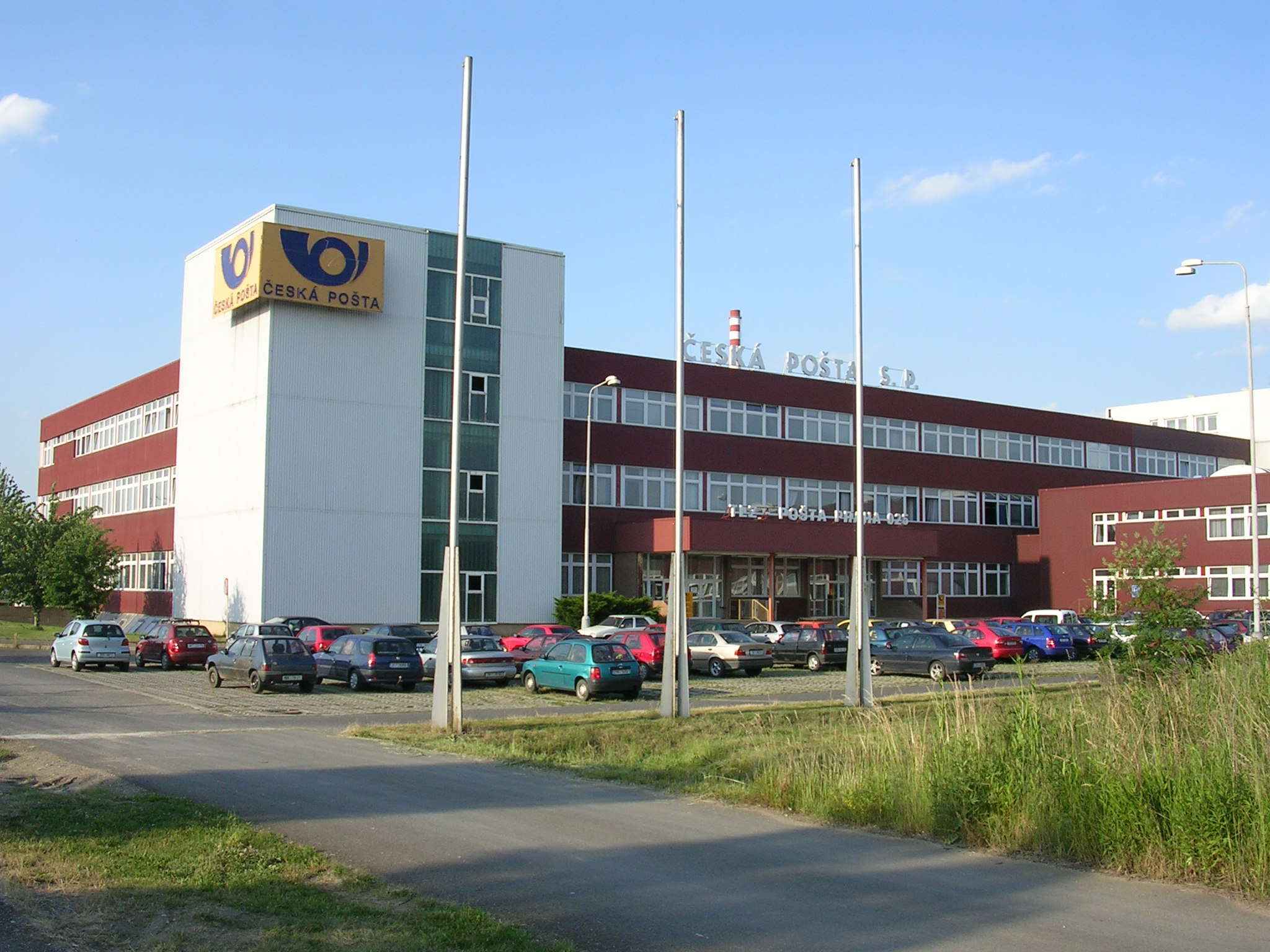 Malešice, Prague, the Czech Republic.